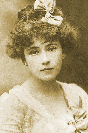 Postcard depicting actress Nina Boucicault.